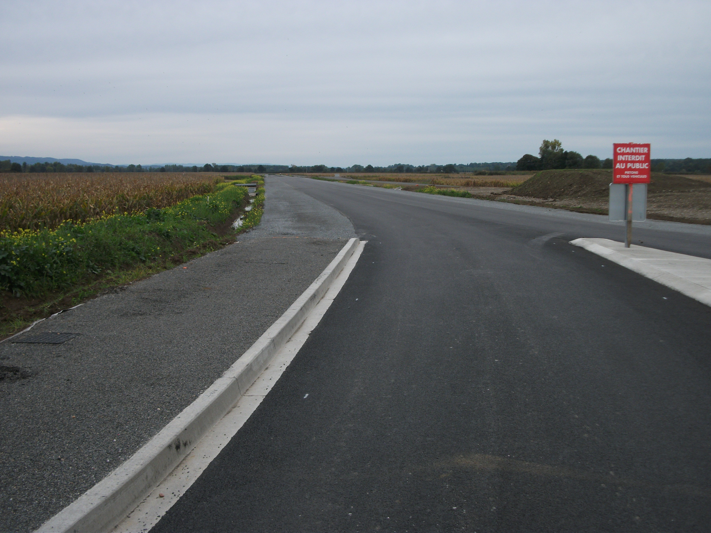 Vichy bypass south-west not yet opened, towards Saint-Yorre and Thiers - Commune of Saint-Sylvestre-Pragoulin, Puy-de-Dôme [9164]